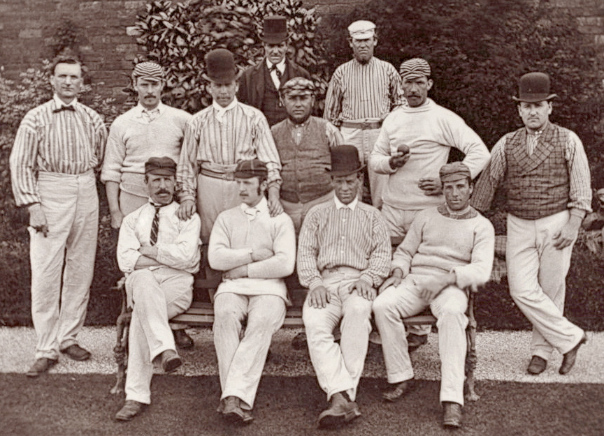 The Yorkshire County Cricket Club team for the match against Surrey on 14-16 June 1875. Included in the picture are Joe Rowbotham (second row, fourth from left); George Pinder (second row, on left); and George Ulyett (second row, second from left).